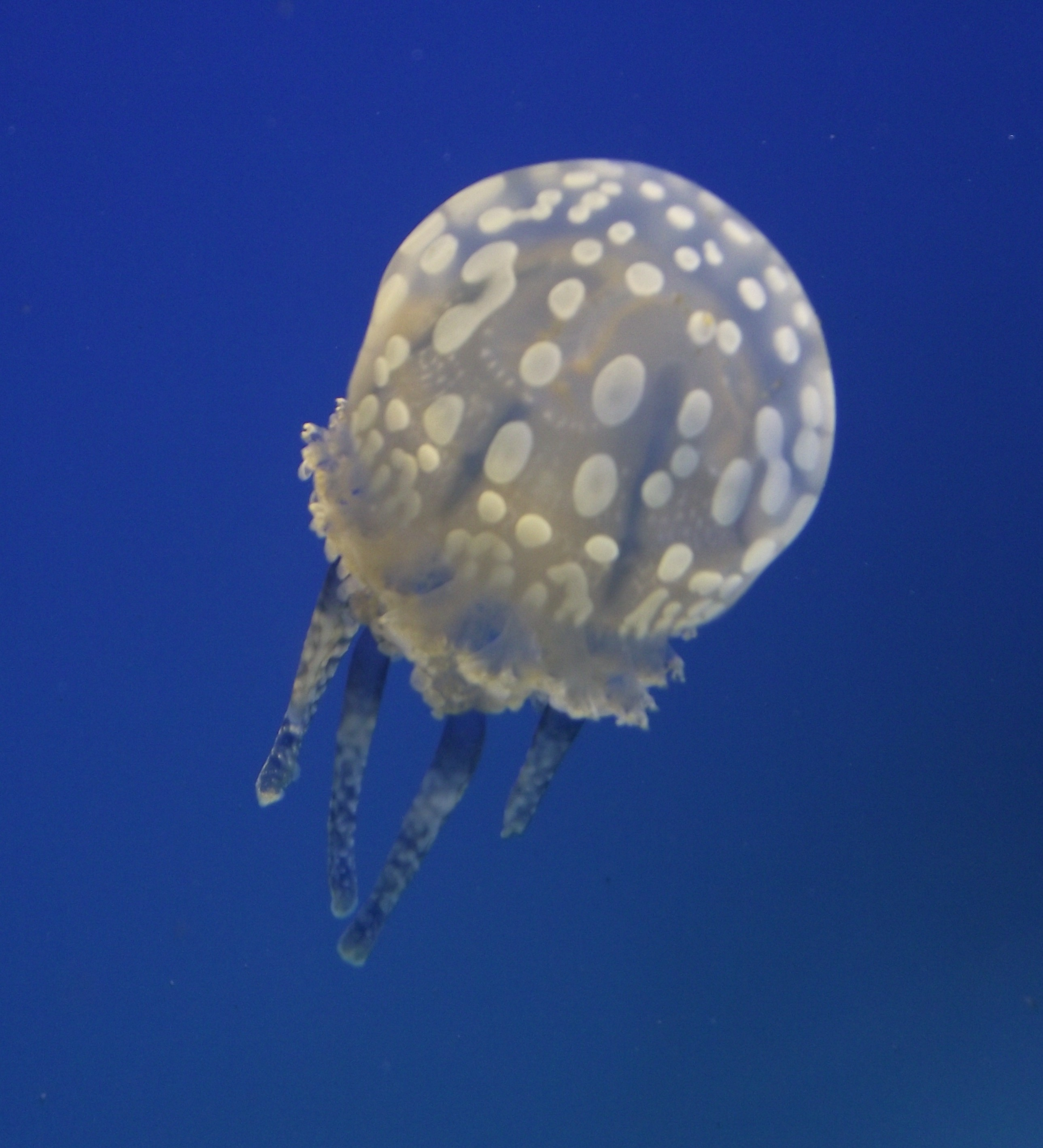 Mastigias papua at the Birch Aquarium, San Diego, California, USA.